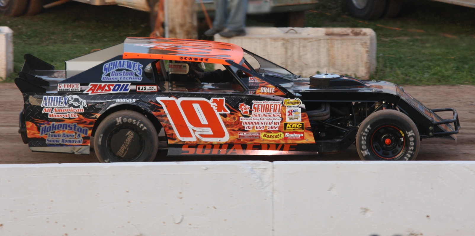 IMCA Northern Sport Modified at the Shawano County (Wisconsin) Fairgrounds.